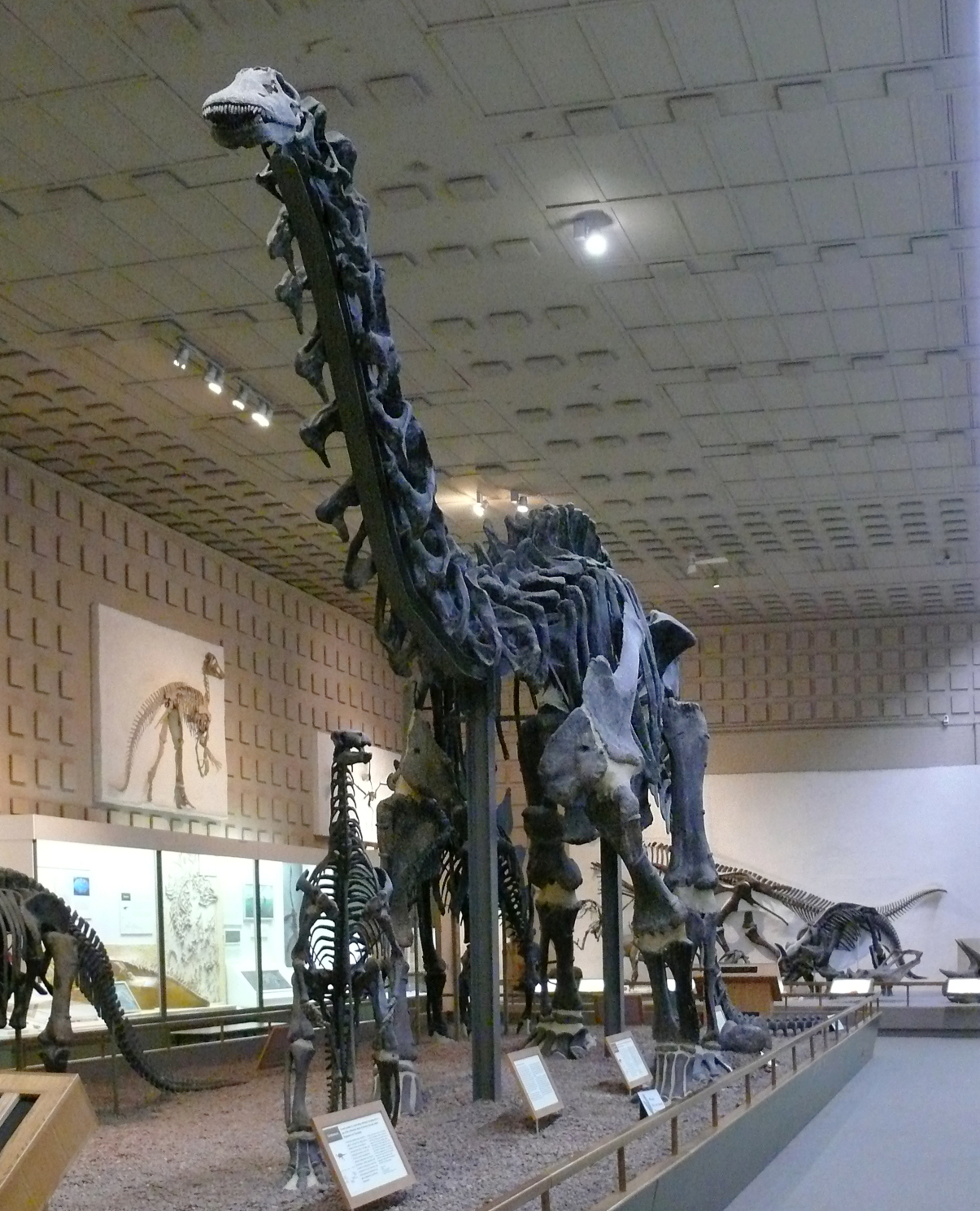 Brontosaurus excelsus in the Yale Peabody Museum of Natural History. Brontosaurus excelsus Inv no. YPM 1980 (holotype specimen of the species) Discoverer William H. Reed 1879 Locality Como Bluff, Wyoming Age Morrison Formatian, Jurassic period, 150 million years ago